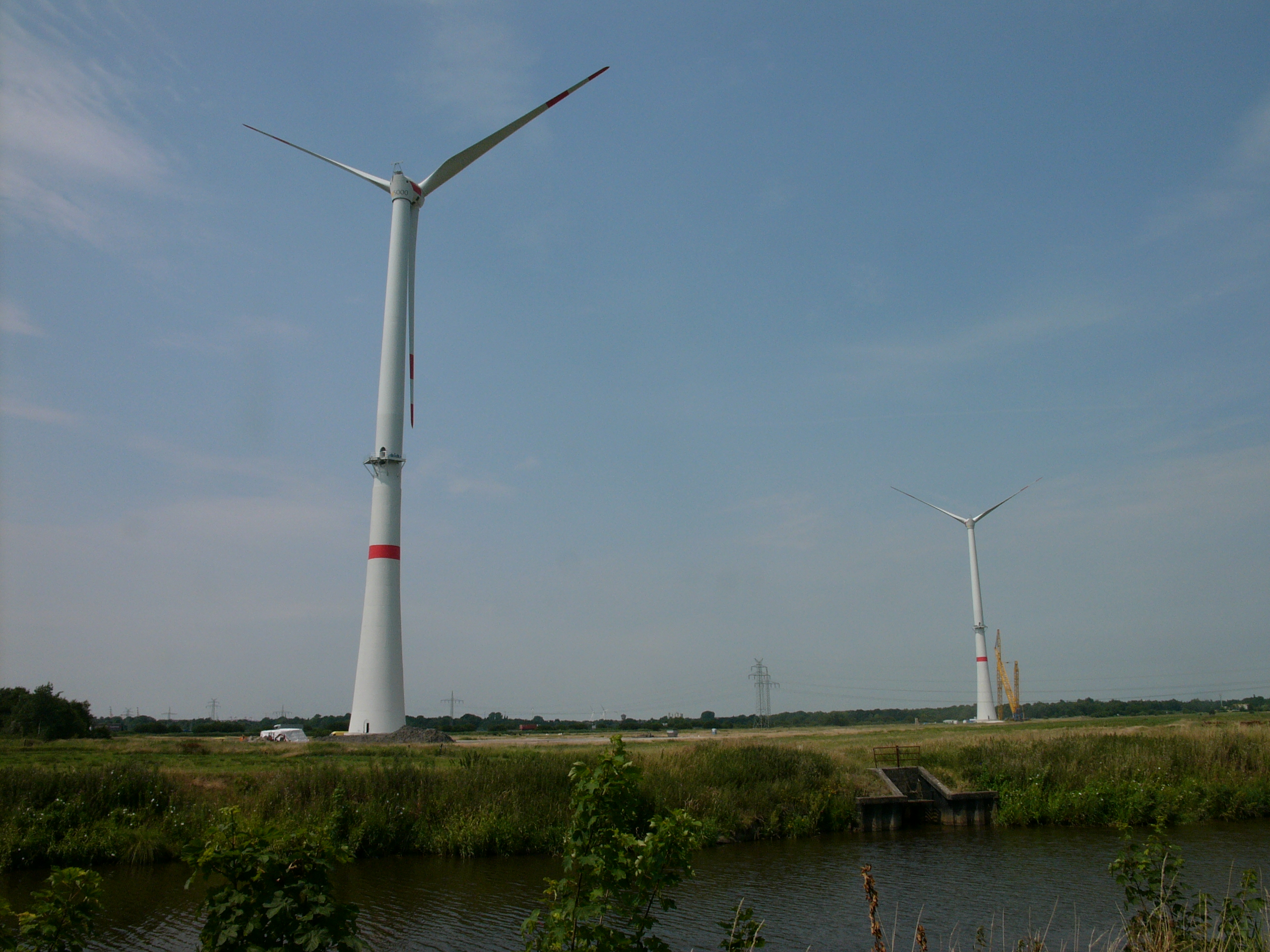 5 MW Wind turbine Multibrid. 3rd and 4th turbine of this type, test installation close to Bremerhaven in 2008